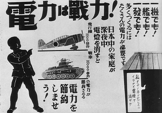 Japanese Poster(During World War II) "Electric Power is Military Power!"